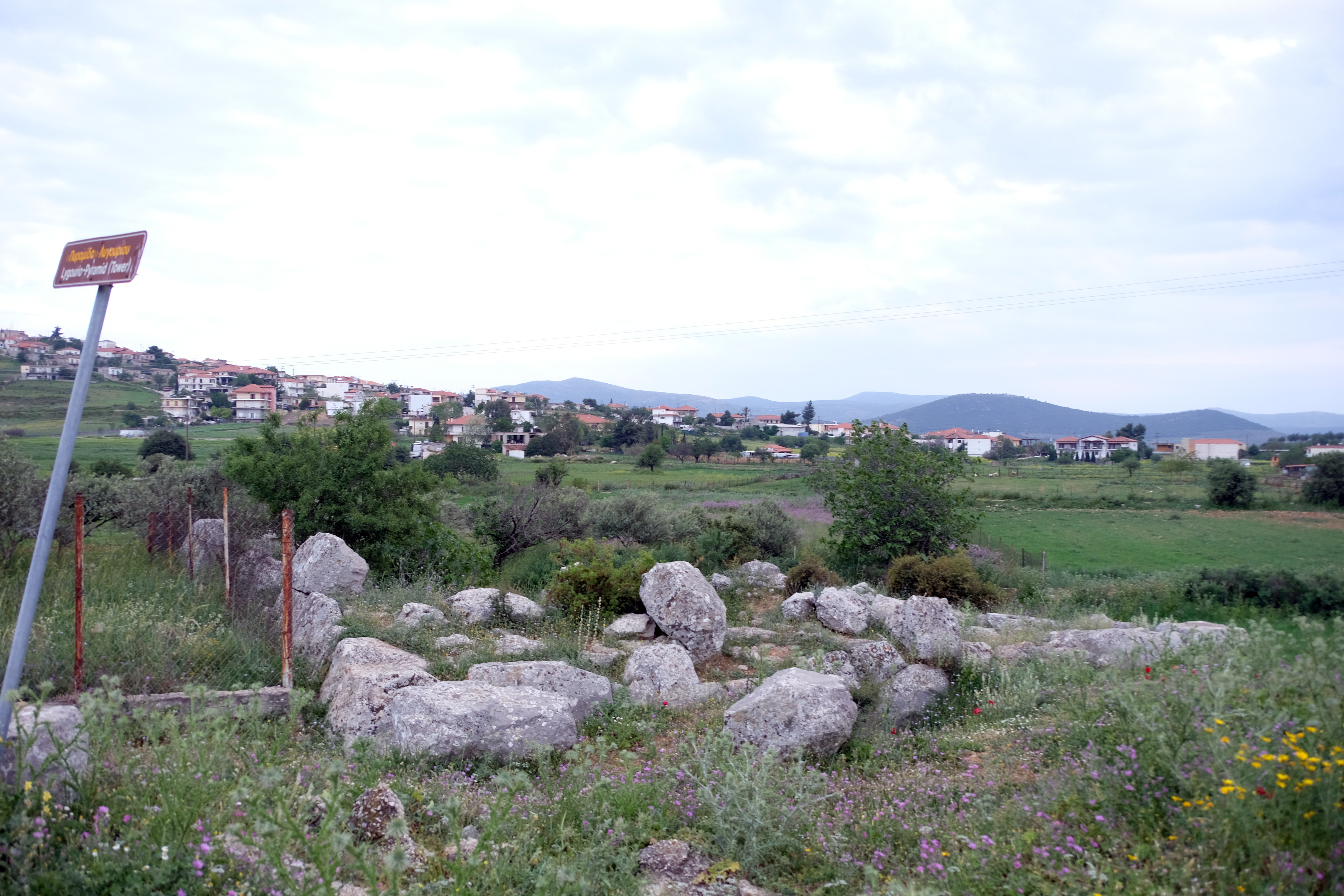 Piramid of Lygourio